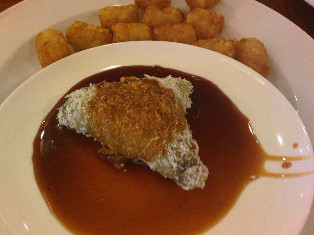 Sticky rice served with brown sugar.